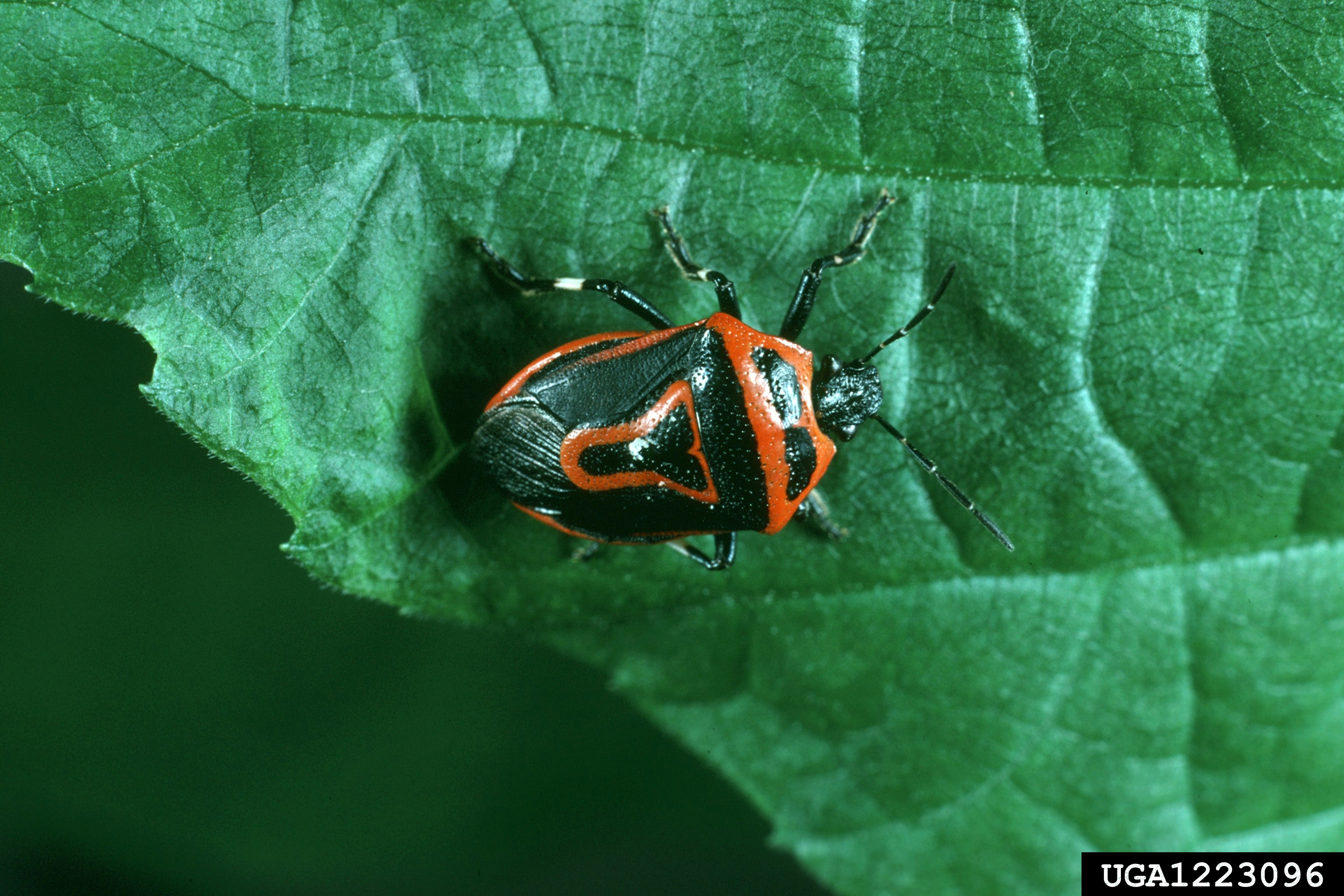 Two-spotted stinkbug (Perillus bioculatus) (adult) ; family Pentatomidae